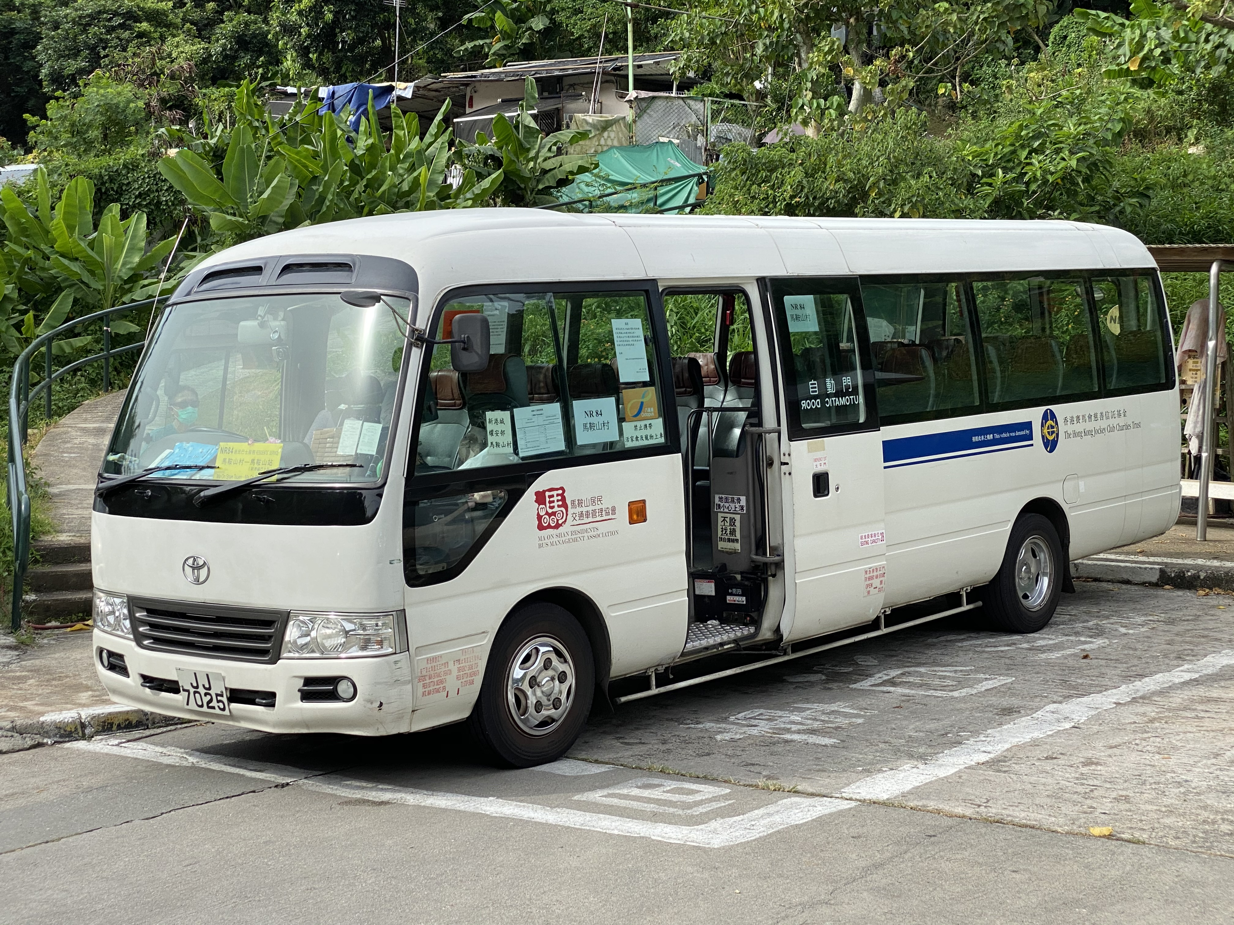 中文（香港）: This photo is taken in Ma On Shan Tsuen.